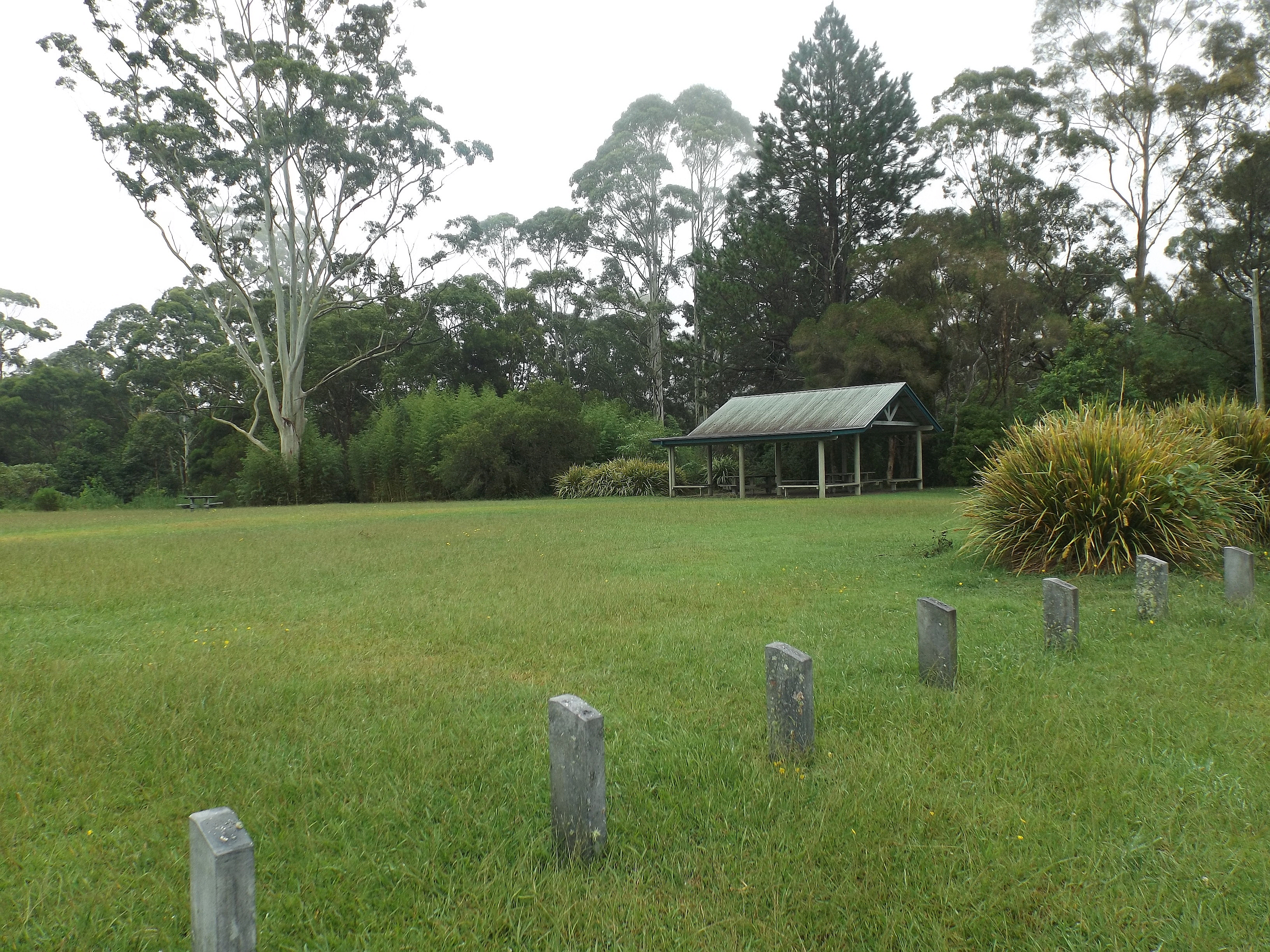 Photo of The Settlement picnic area in Springbrook, City of Gold Coast, Queensland, Australia.